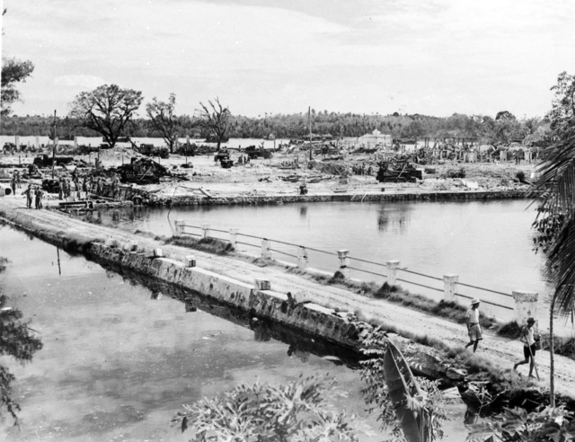 The remnants of the town of Victoria on Labuan island on 10 June 1945, after it was bombarded by Allied aircraft and warships prior to the Australian landings